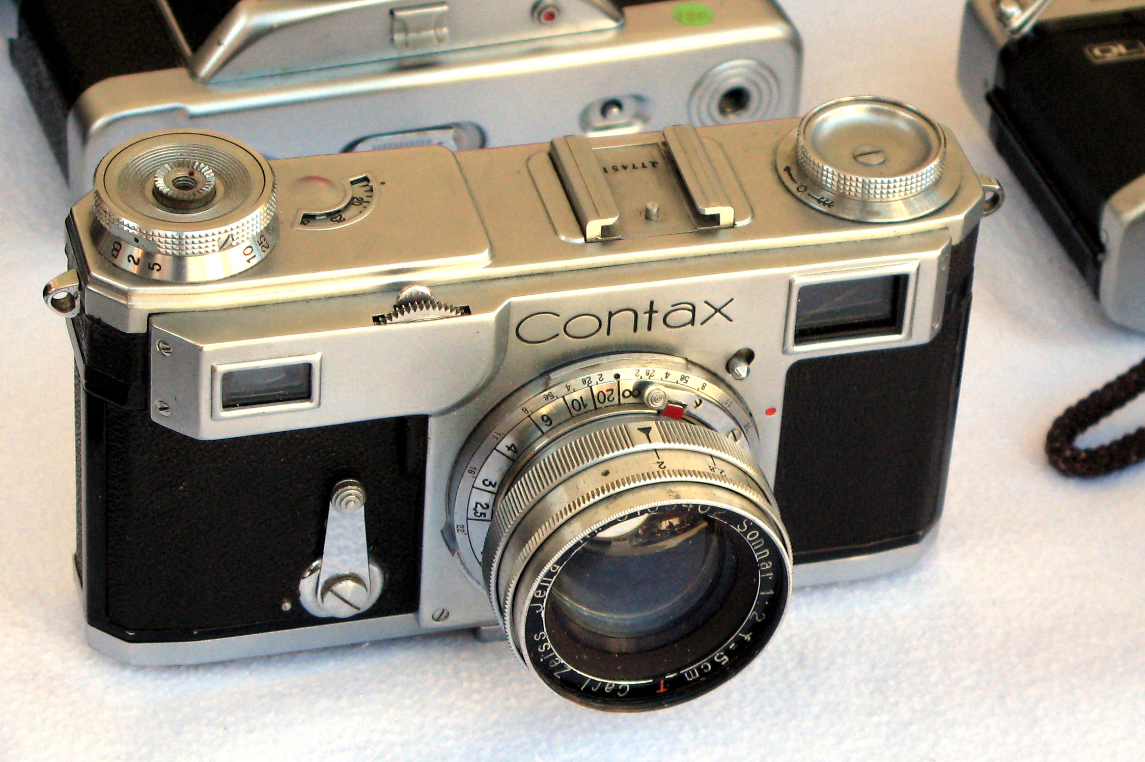 Contax II Note: the lens is not original by Carl Zeiss (Fake Russian-made)